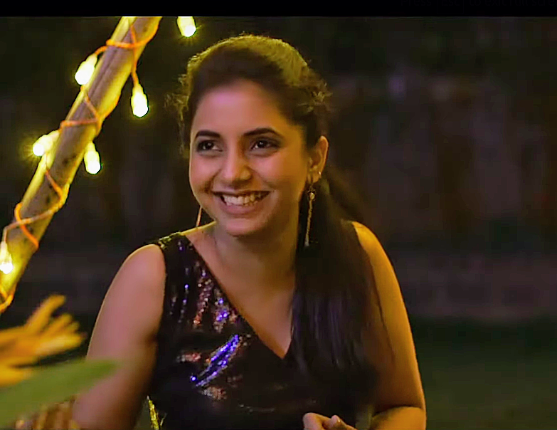 Indian lady in sleeveless top with brown skin color.